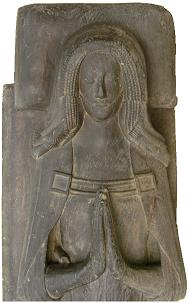 Oak wood effigy of Lady Margaret Audley (d.1373), heiress of a moiety of the feudal barony of Barnstaple, North Devon, including the later capital manor of Tawstock. Detail from her effigy formerly in Tawstock Church under a recessed arch in wall of north chancel, now in Barnstaple Museum.